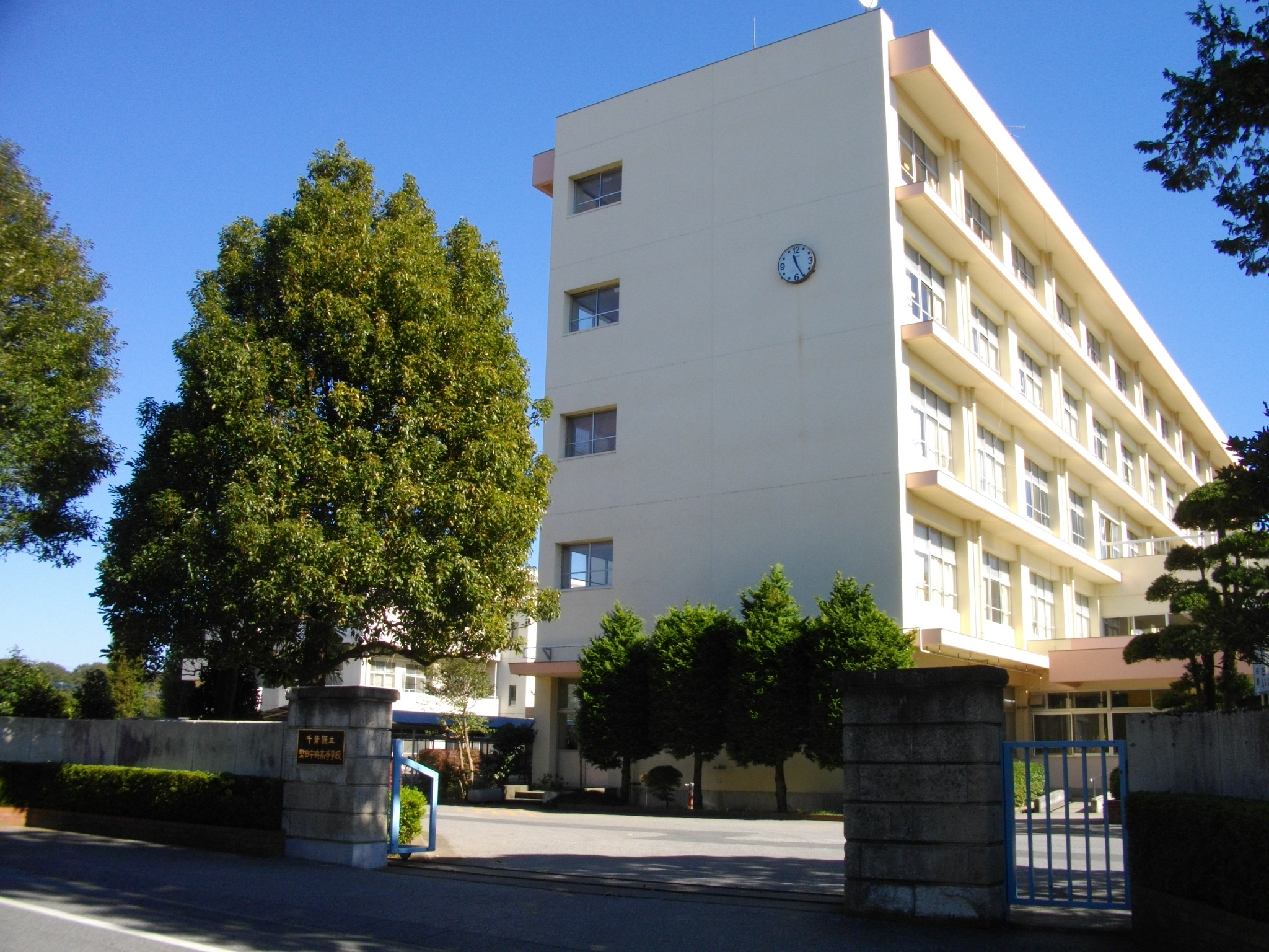 Noda-Chuo High School